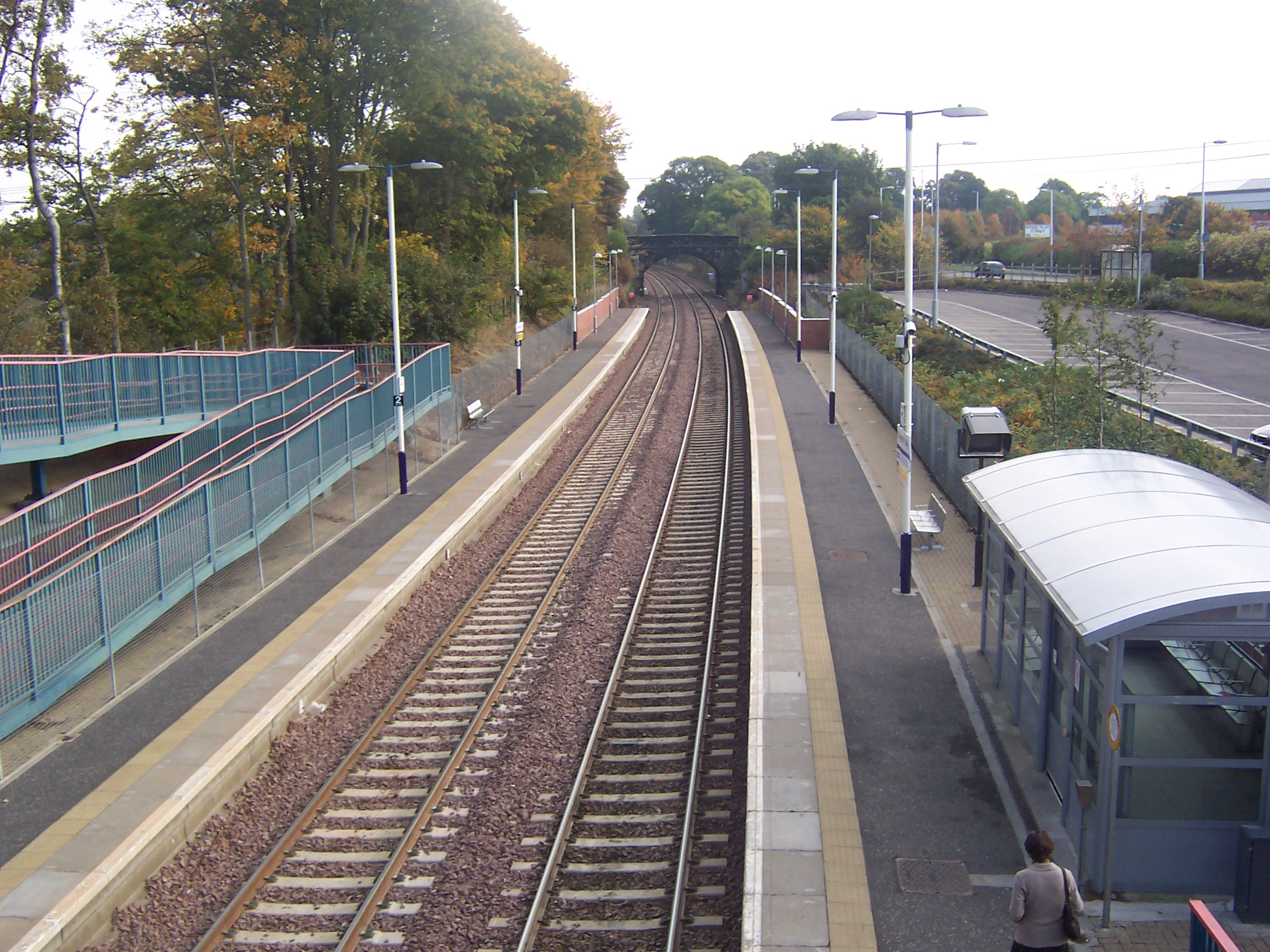 Dalgety Bay railway station.